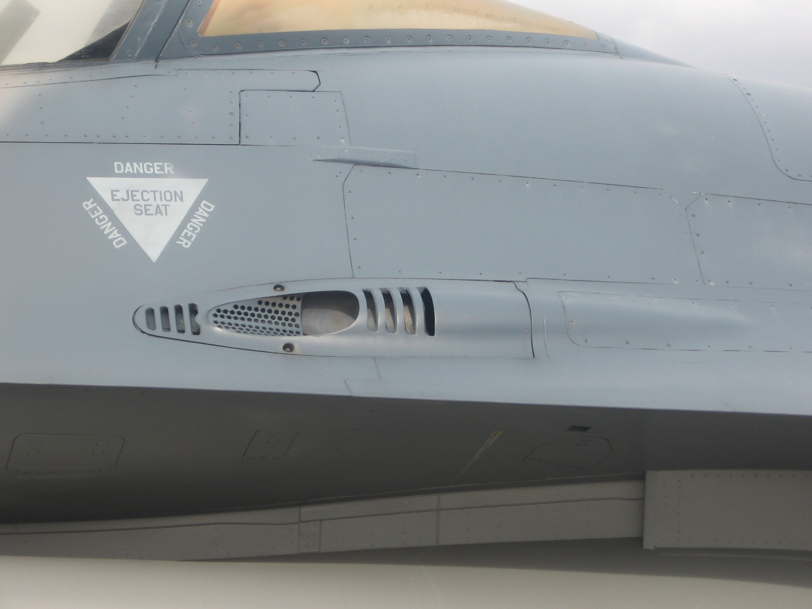 The cannon port of the F-16A (79-403) at the Intrepid Sea-Air-Space Museum, New York City. The F-16 is equipped with an M61 Vulcan 20 mm cannon in the left wing root with the F-16A distinguished by having four vents behind the port for the M61 cannon.